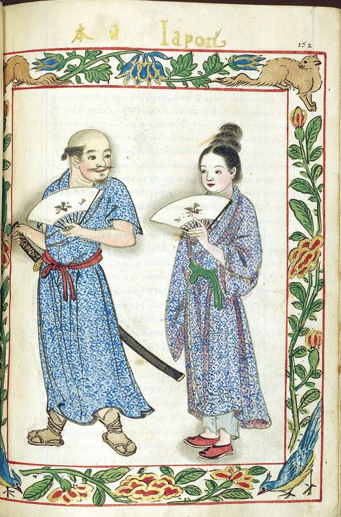 Japanese migrants in the Pre-hispanic Philippine Archipelago